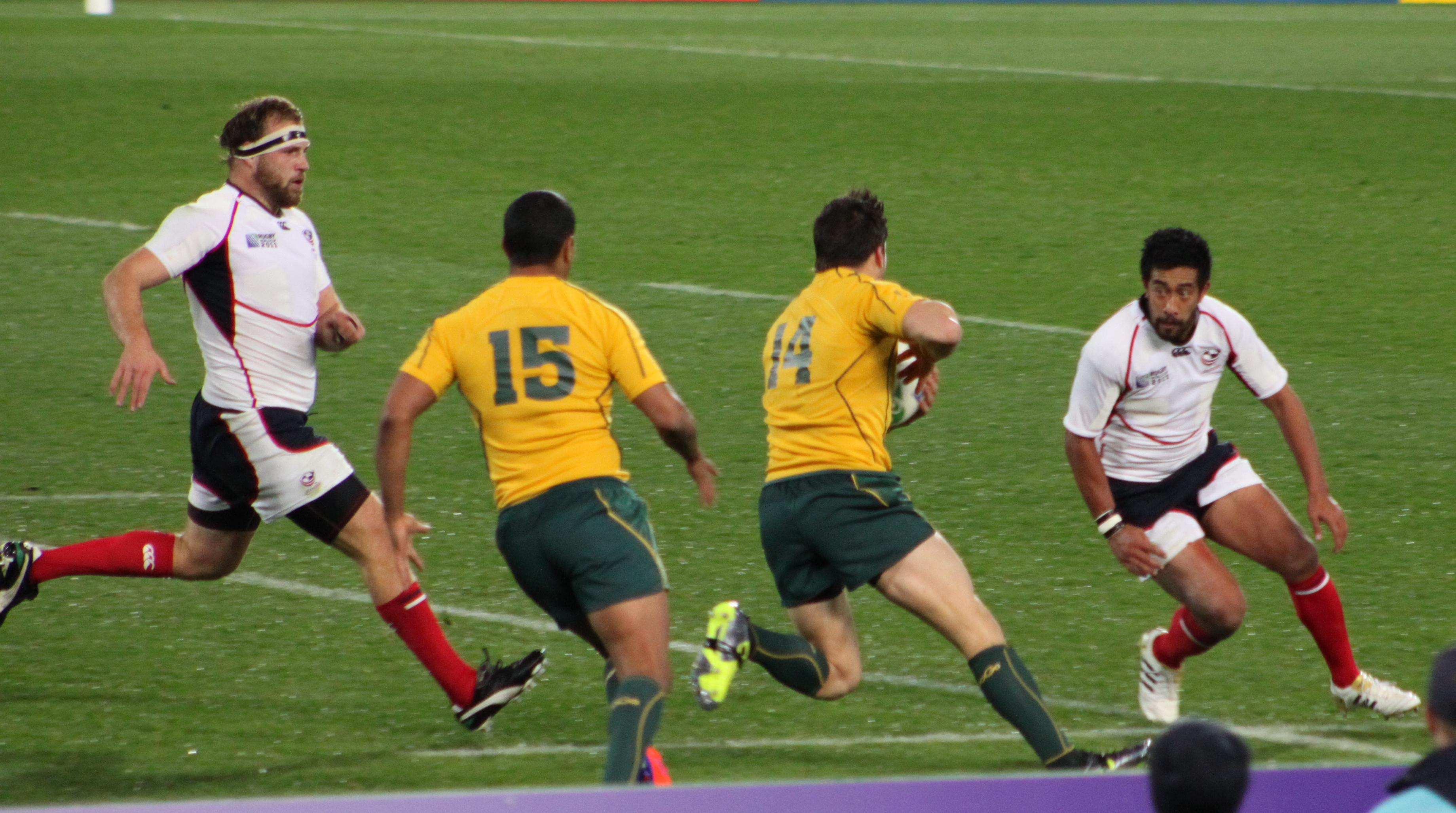 Match between Australia and USA during 2011 Rugby World Cup in New Zealand.